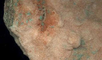 Upper Permian Gypsum, Novoveská Huta, Slovakia. Slovak Ore Mountains, Western Carpathians.